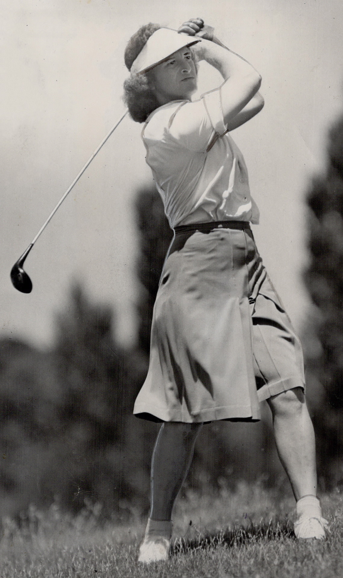 That's Mrs. Babe (Didrikson) Zaharias putting wing. By looking this pose over you'll be able to note that it is, speaking. 'She hits 'em like we do, ' exclaimed Bob os, wants no advantage and evn then she'll match you drive day.